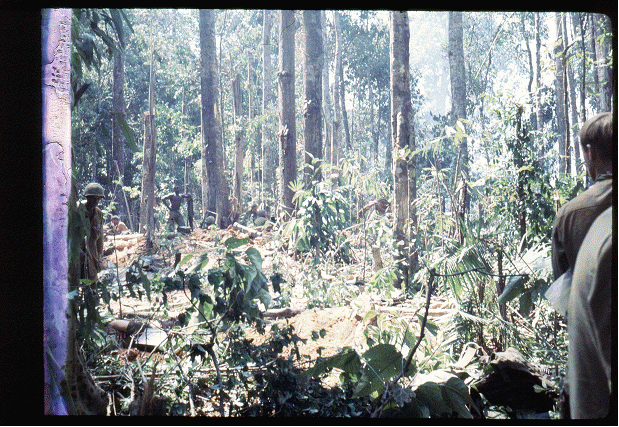 D company, 3rd Battalion, 8th Infantry on Hill 947 on March 6th, 1969.